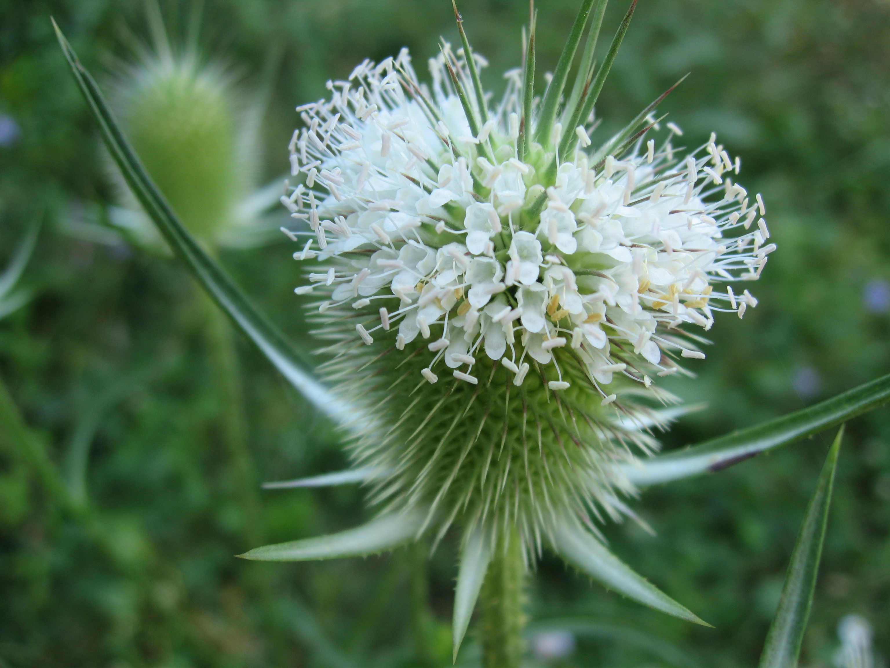 Dipsacus laciniatus flowers